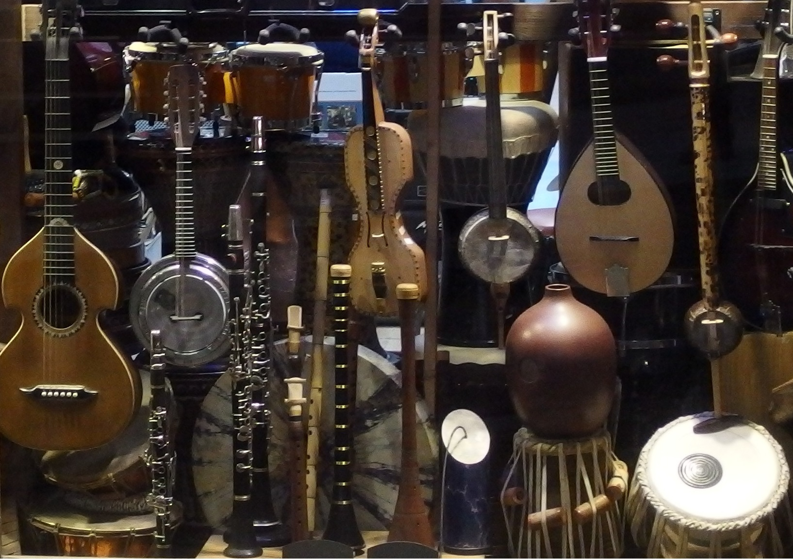 musical instruments shop in Istanbul